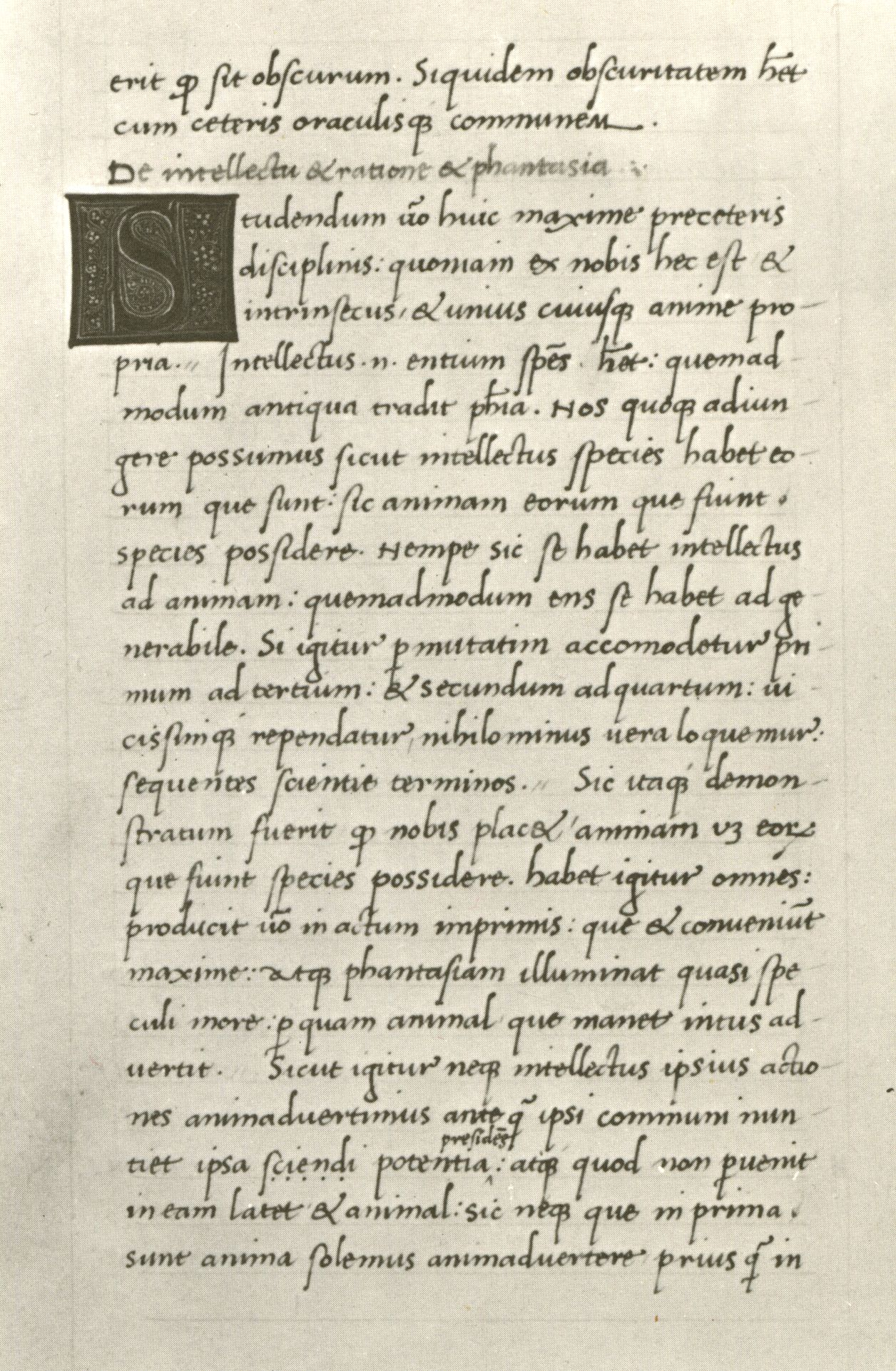 Latin Translation of Synesius, „De insomniis“ (“On Dreams”), translated by Marsilio Ficino. Manuscript belonged to king Matthias Corvinus. Manuscript Wolfenbüttel, Herzog-August-Bibliothek, Cod. 2 Aug. 4°, fol. 5r.